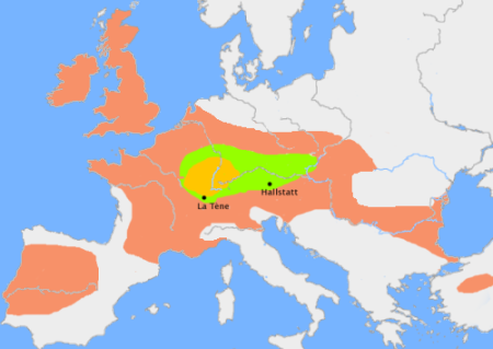 DO NOT USE THIS MAP It was made in 2005 as a first draft and doesn't remotely satisfy inclusion criteria for Wikipedia. Original caption:[1] "The green area suggests a possible extent of (proto-)Celtic influence around 1000 BC. The orange area shows the region of birth of the La Tene style. The red area indicates an idea of the possible region of Celtic influence around 400 BC." core Hallstatt territory "birth of the La Tene style" sphere of possible Celtic influence around 400 BC 275 BC [includes Galatia]